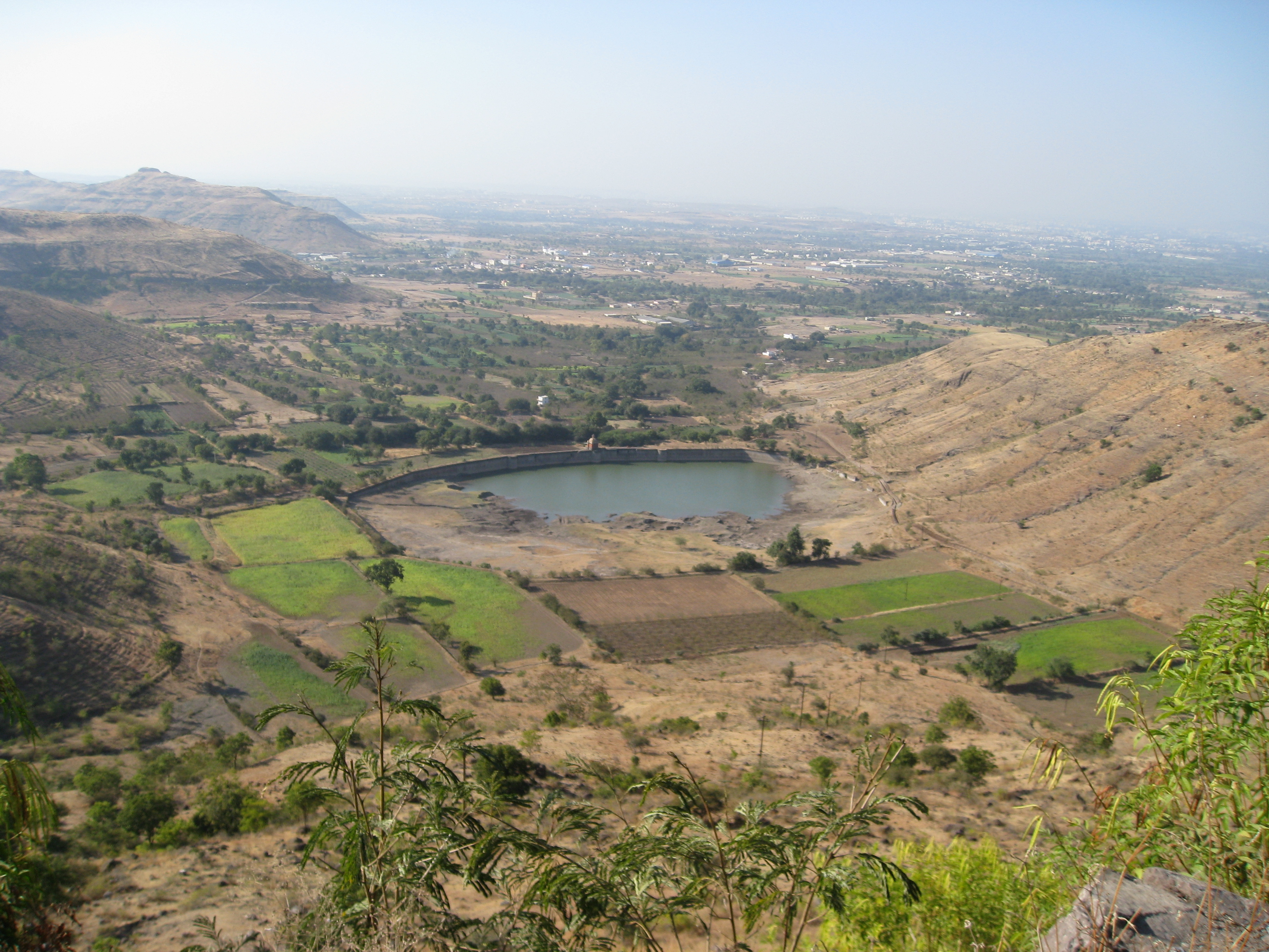 Mastani Talav(Lake) in memory of Mastani (died 1740).She was the muslim wife of Peshwa Baji Rao I (1699-1740), an Indian general and chief minister to the fourth Maratha Chhatrapati (Emperor) Shahuji.